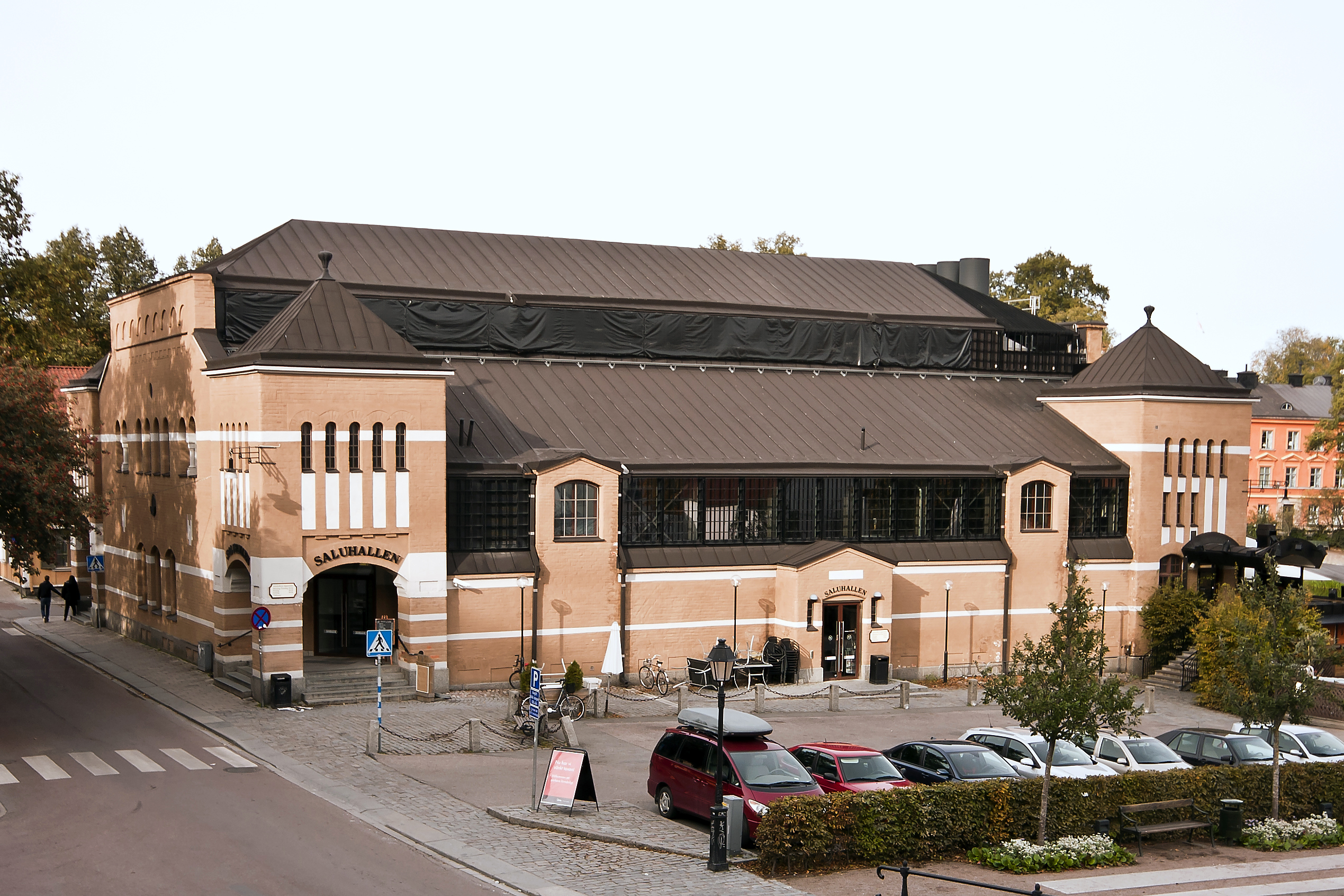 The Uppsala Covered Market.